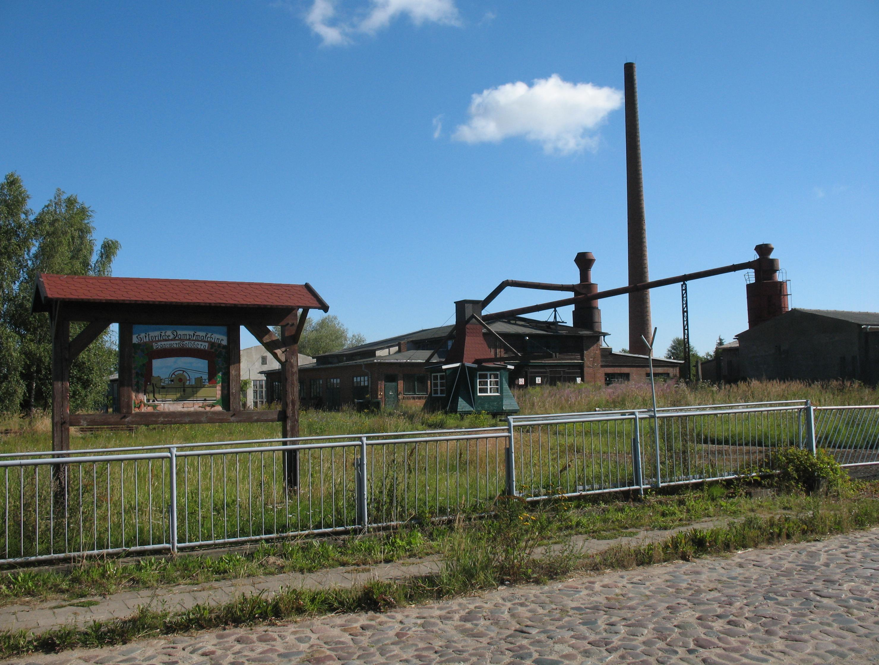 Former sawmill in Goldberg in Mecklenburg-Western Pomerania, Germany